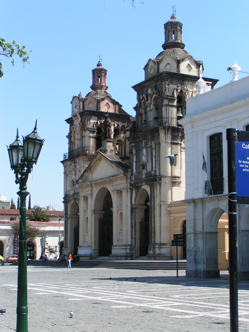 Cathedral of CórdobaCitroën Diaries - 07